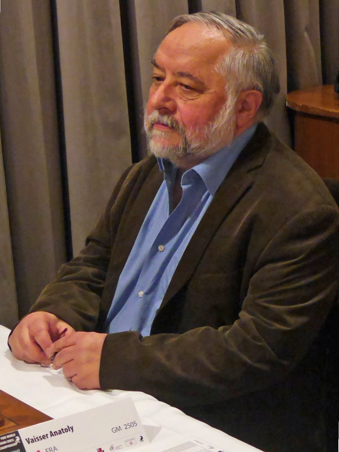 Anatoly Vaisser, Schachweltmeisterschaft der Senioren 2016 in Marienbad.